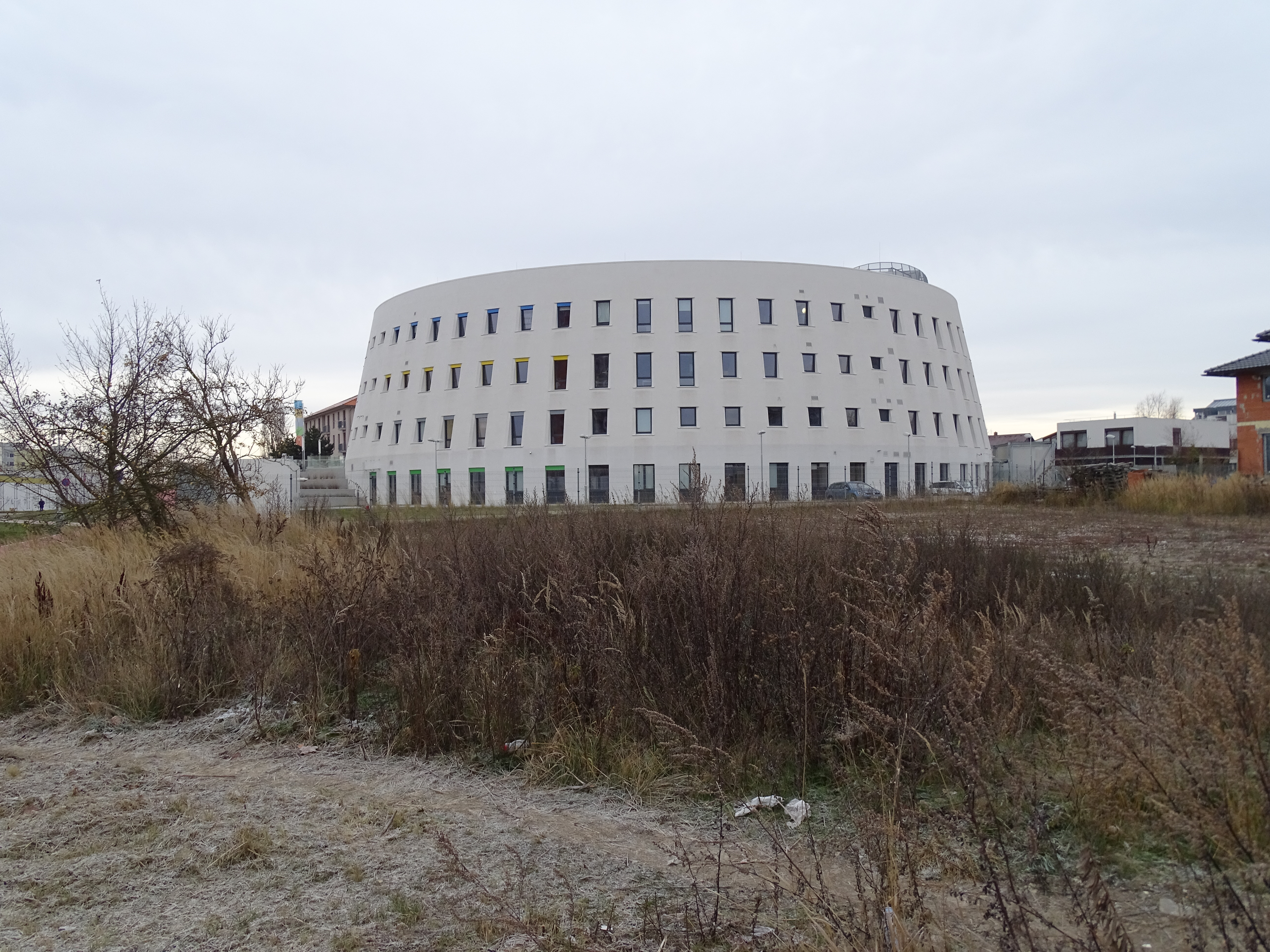 Prague-Stodůlky, Czechia. Červeňanského 2843/19, central repository of the Museum of Decorative Arts in Prague.